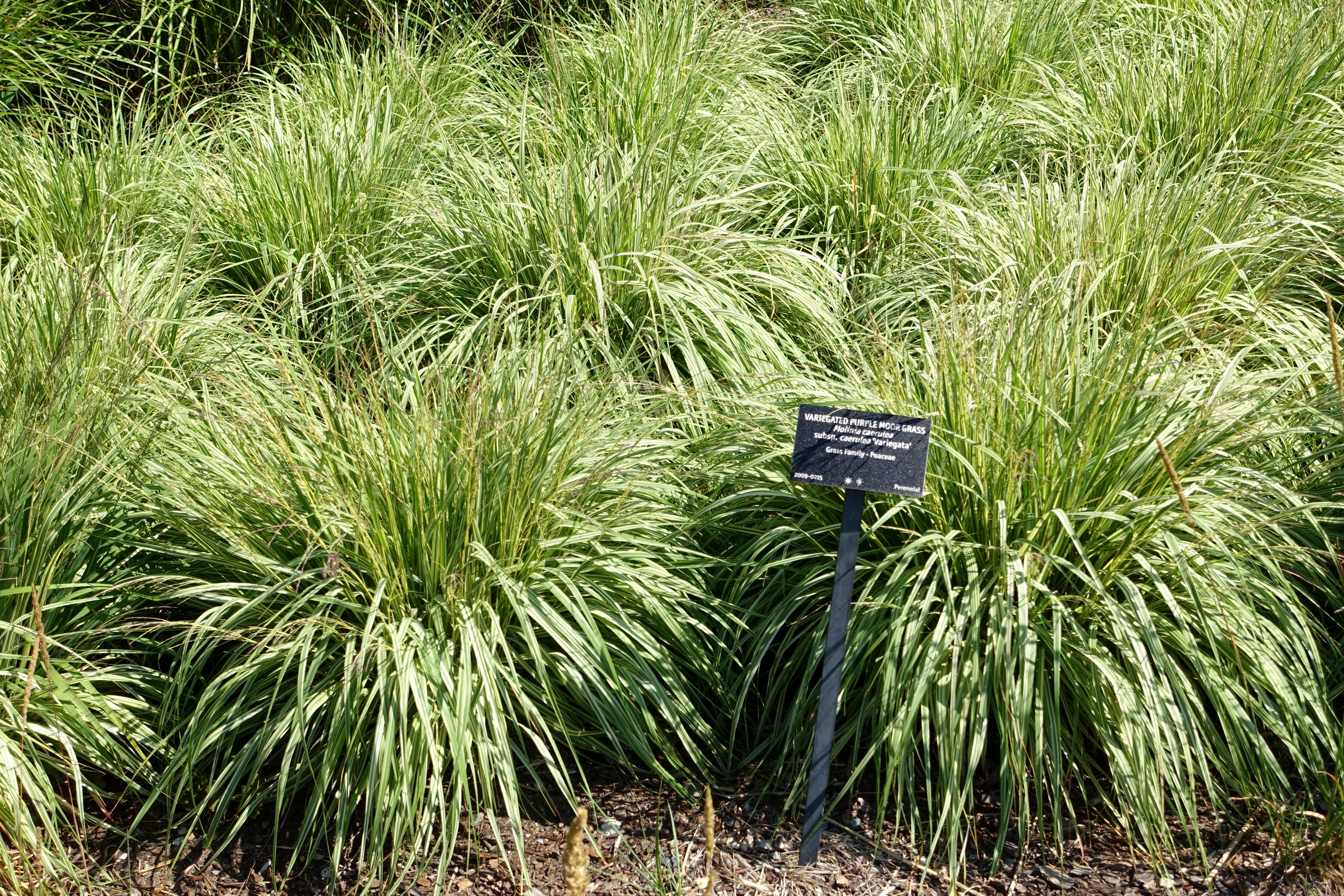 Botanical specimen in the VanDusen Botanical Garden - Vancouver, BC, Canada.